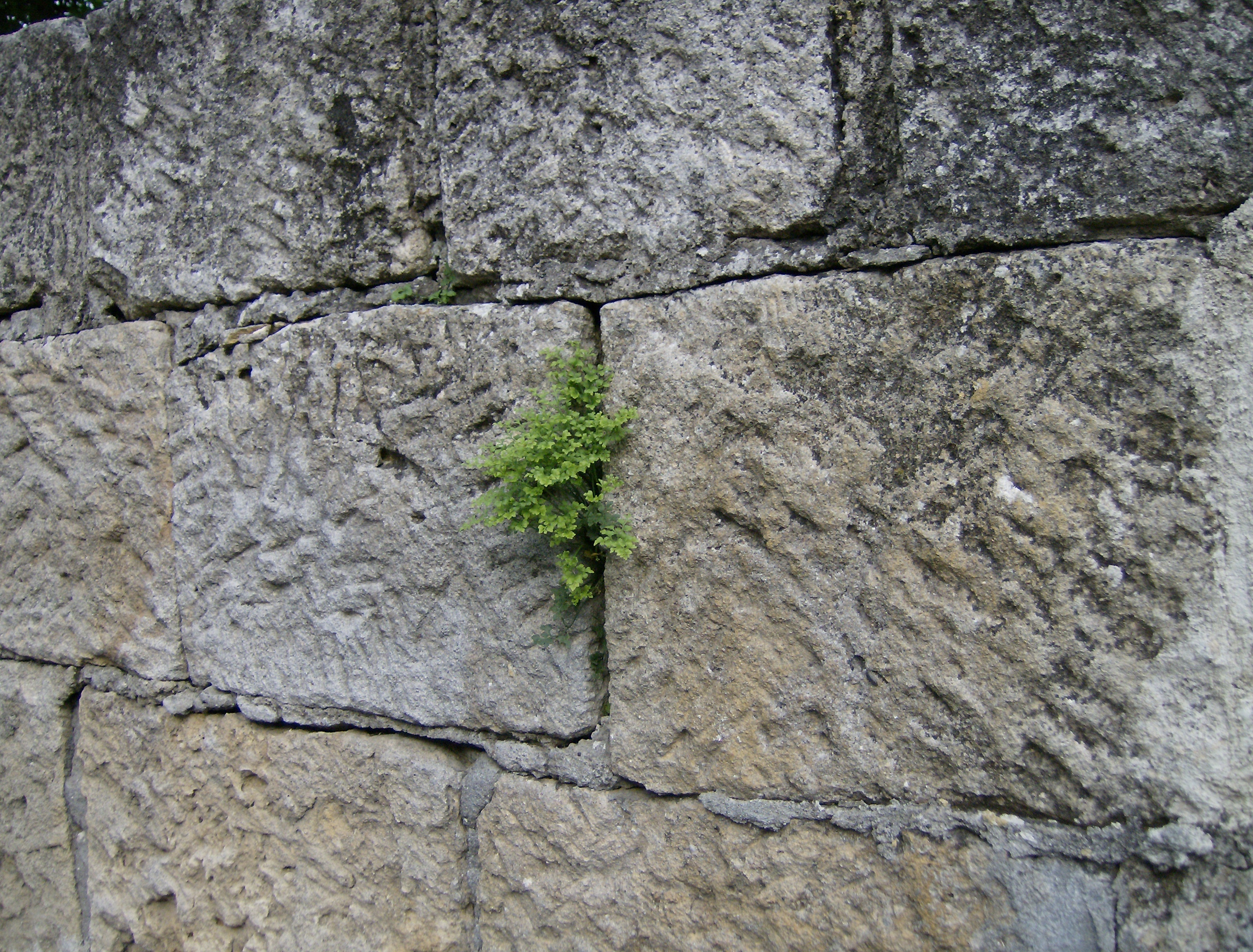 Abrittus